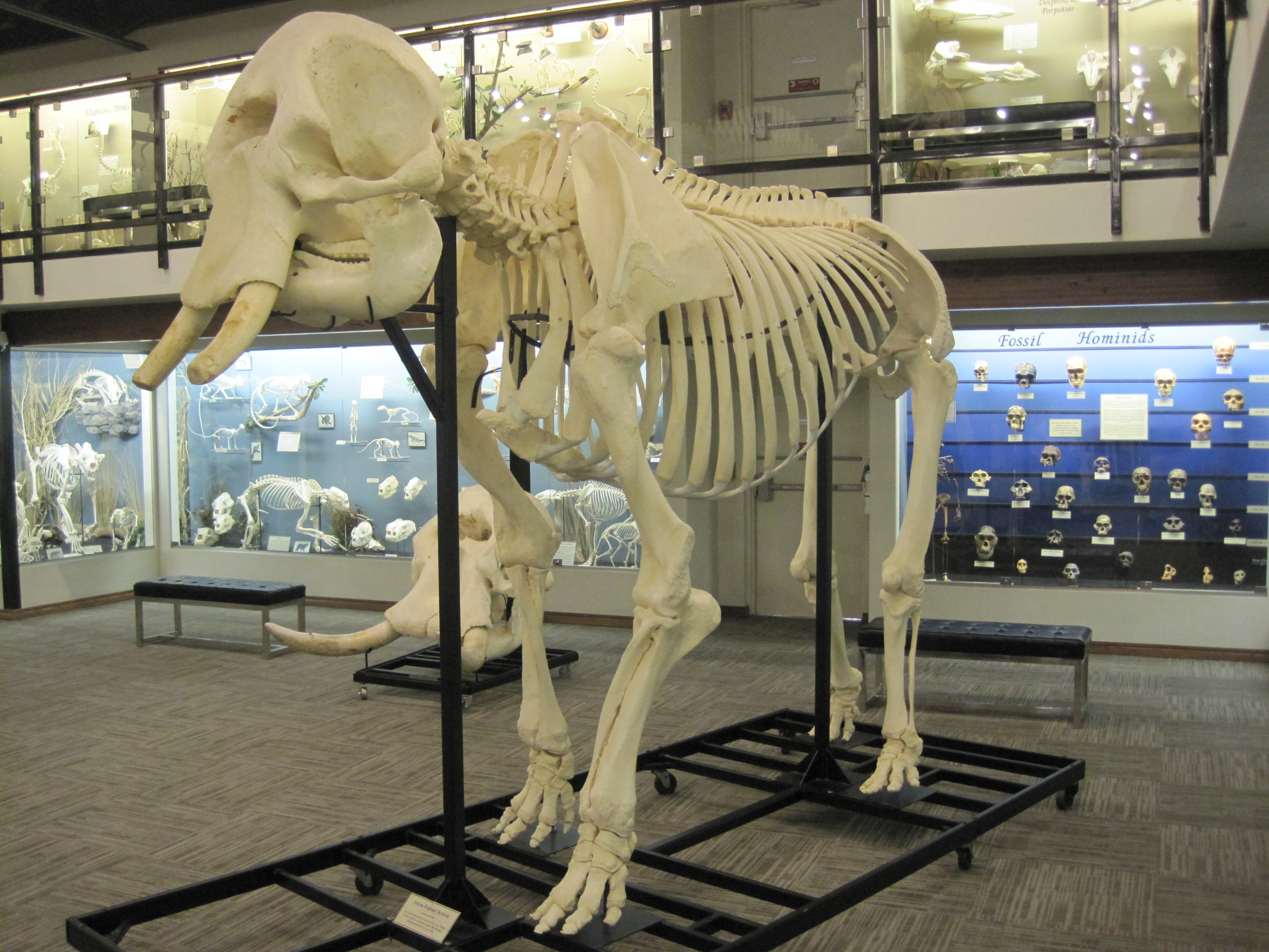 Female African bush elephant skeleton on display at the Museum of Osteology, Oklahoma City, Oklahoma.